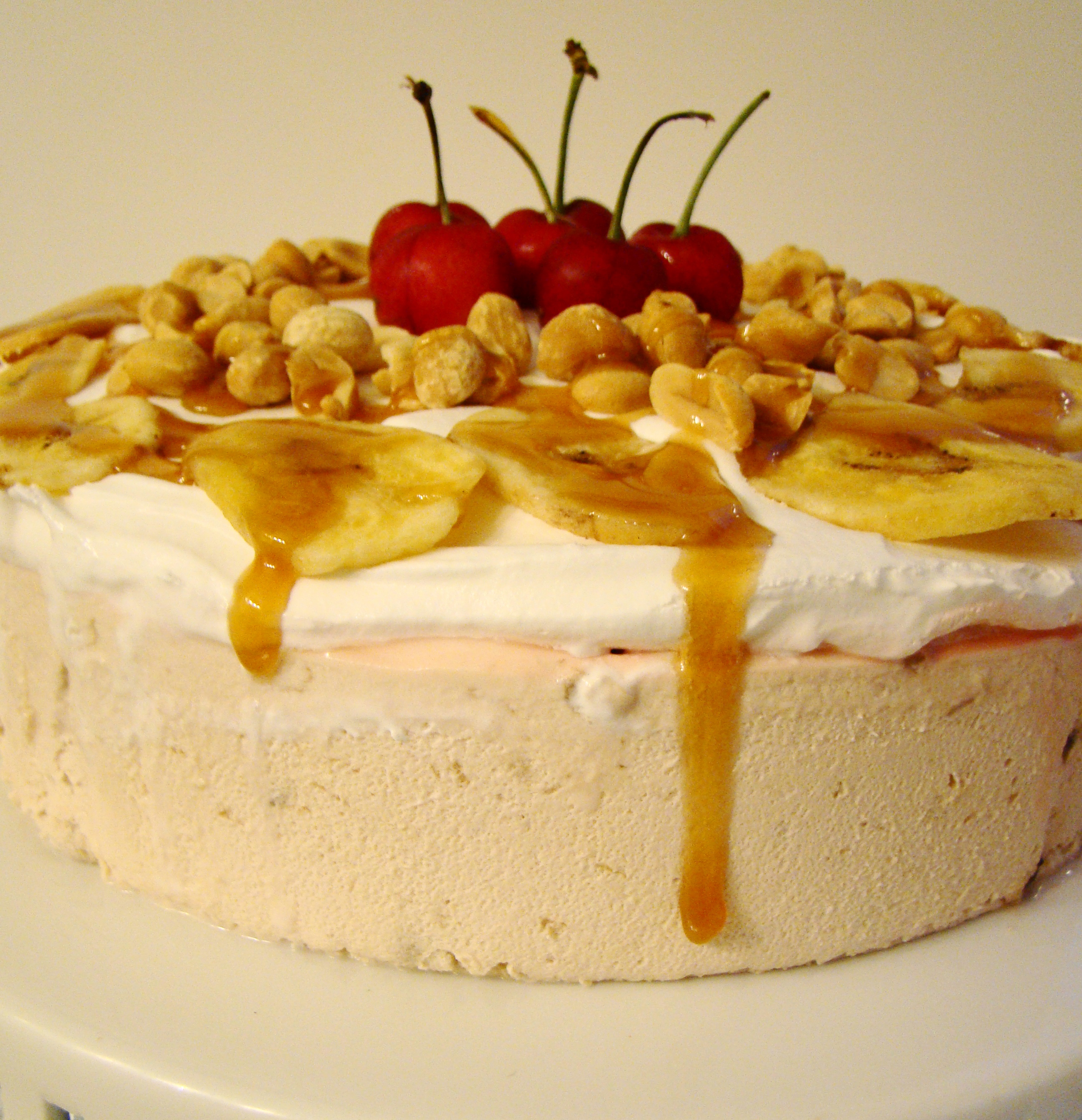 Banana Split Charlotte showing layers. See also File:Banana Split Charlotte.jpg.